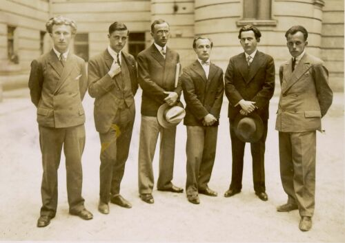 Slovene literats (from left: Edvard Kocbek, Bogomil Hrovat, Slavko Grum, Anton Ocvirk, Josip Vidmar in Vladimir Bartol)